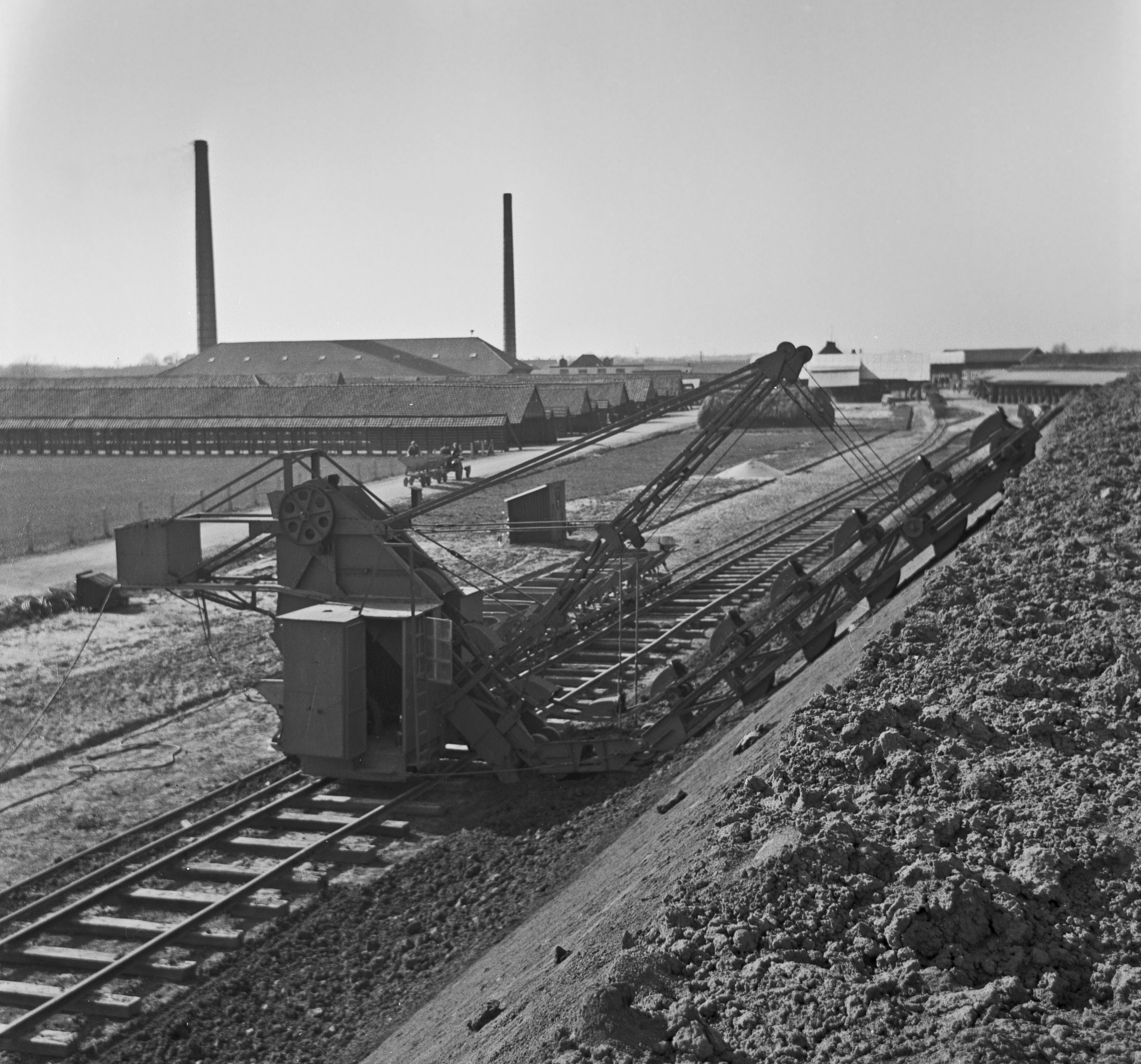 Excavator of Orenstein & Koppel